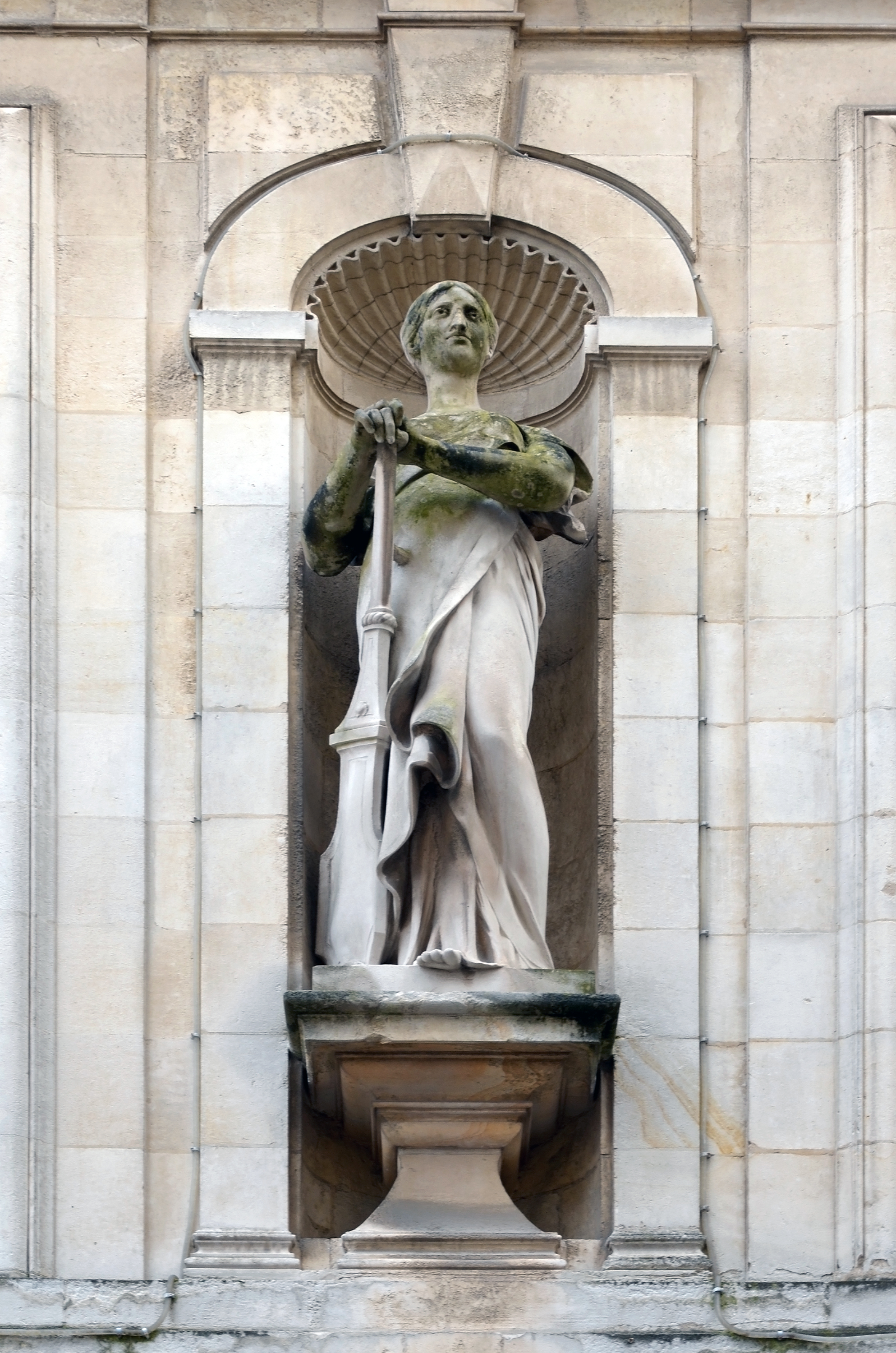 Statue depicting Navigation, on an exterior facade of La Rochelle city hall, Charente-Maritime, France.